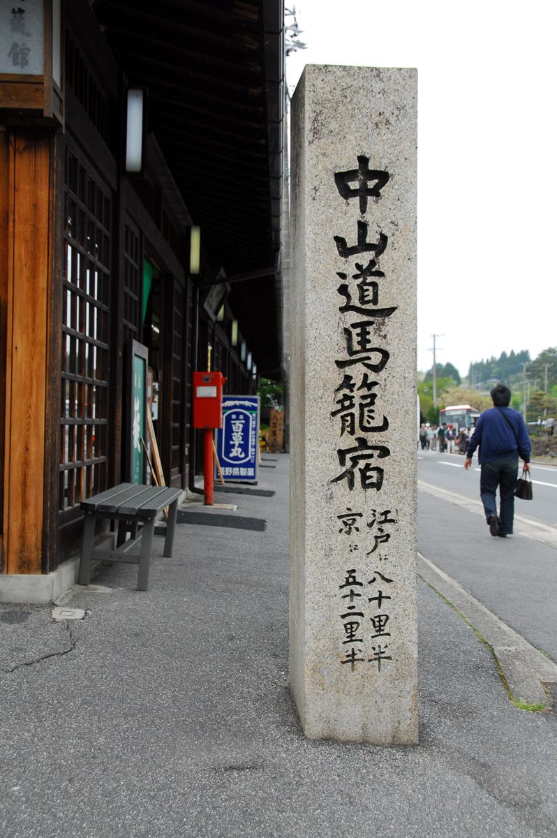 The mile post of Magome-Juku